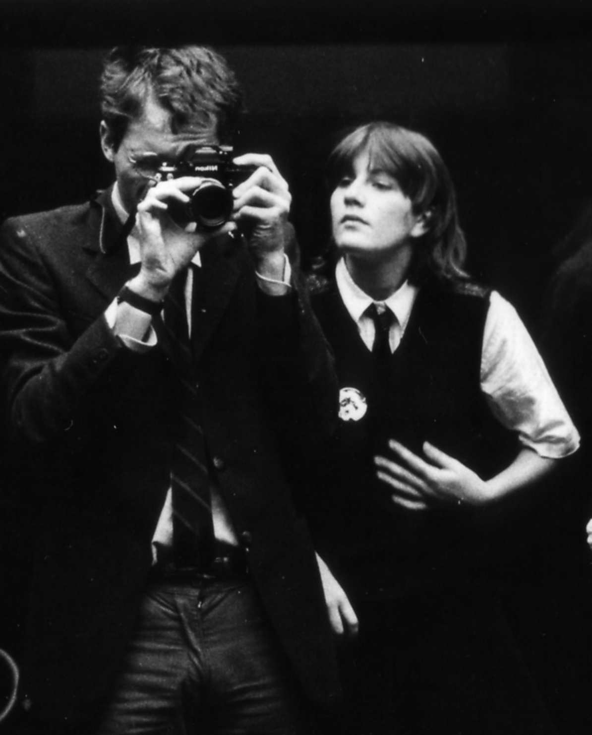 Photography by Michel Saloff-Coste